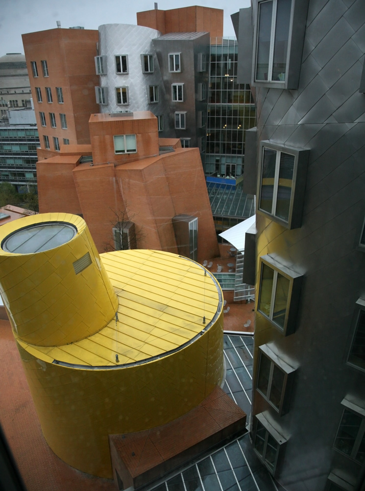 The Ray and Maria Stata Center, architect Frank Gehry, MIT, Boston USA.